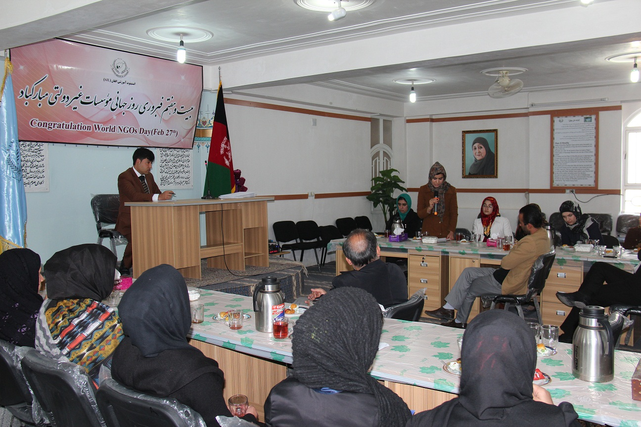 The World NGO Day Afghanistan, 27 February 2014.